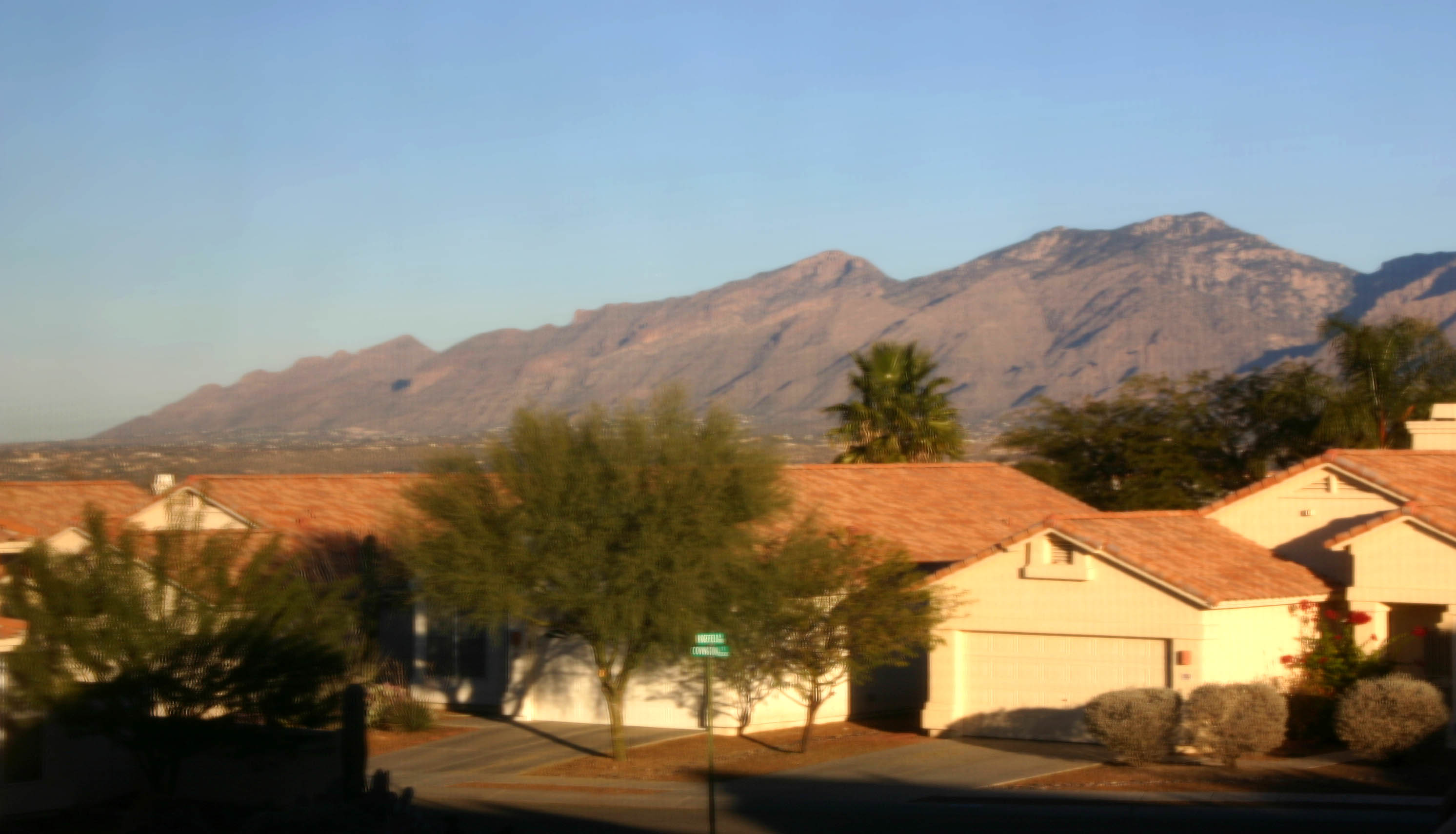 Transferred from English Wikipedia Original description: The Santa Catalina Mountains - seen from the center of the City of Tucson, Arizona. Photo credit: Joe Kozlowski. (Joekoz451 14:25, 15 August 2006 (UTC)) This file is a temporary place holder until I can make a better image of the mountains.